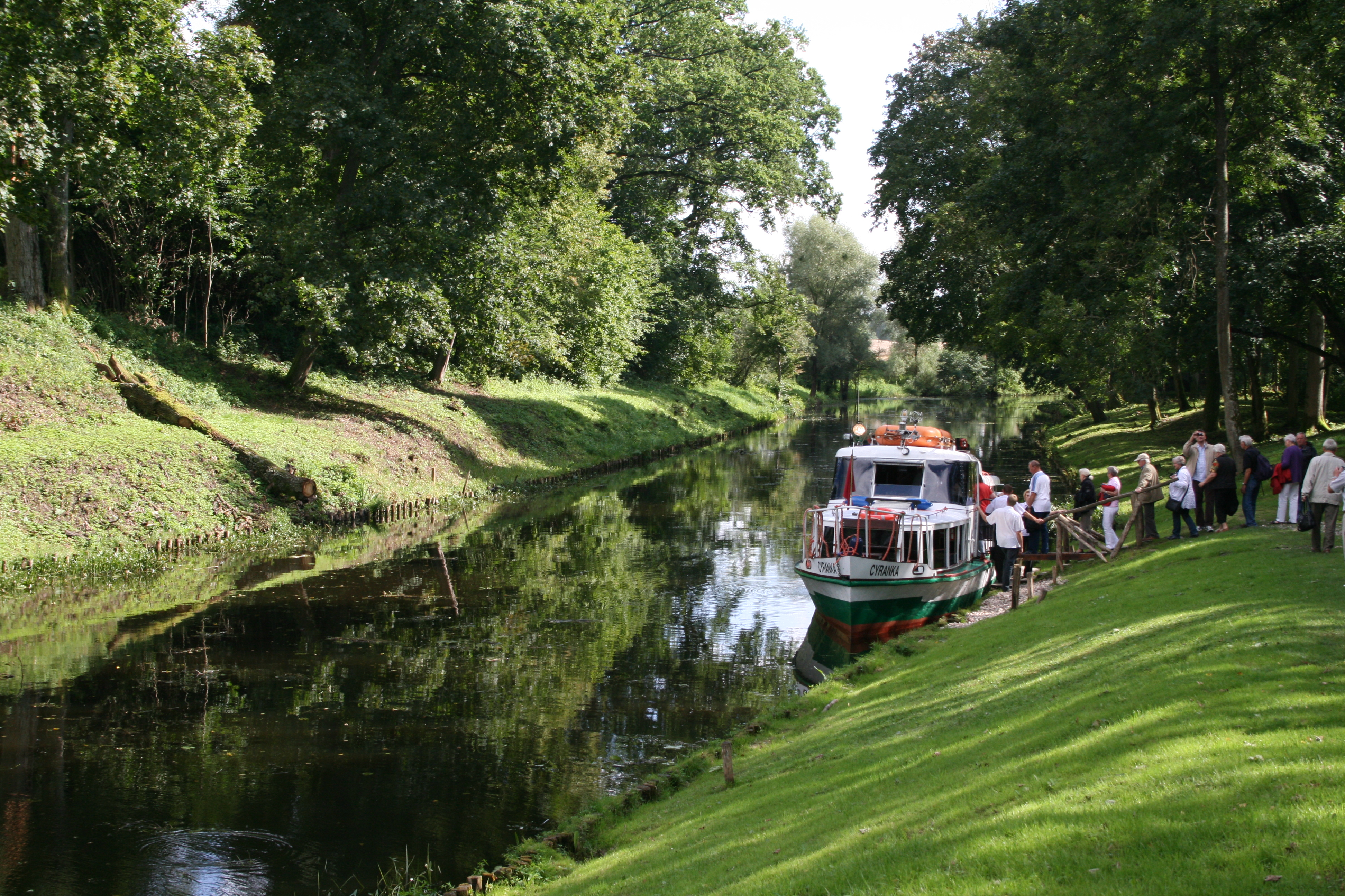 The touristic boat Cyranca on Elbląg-Ostróda canal, Poland near the boat lift Buczyniec